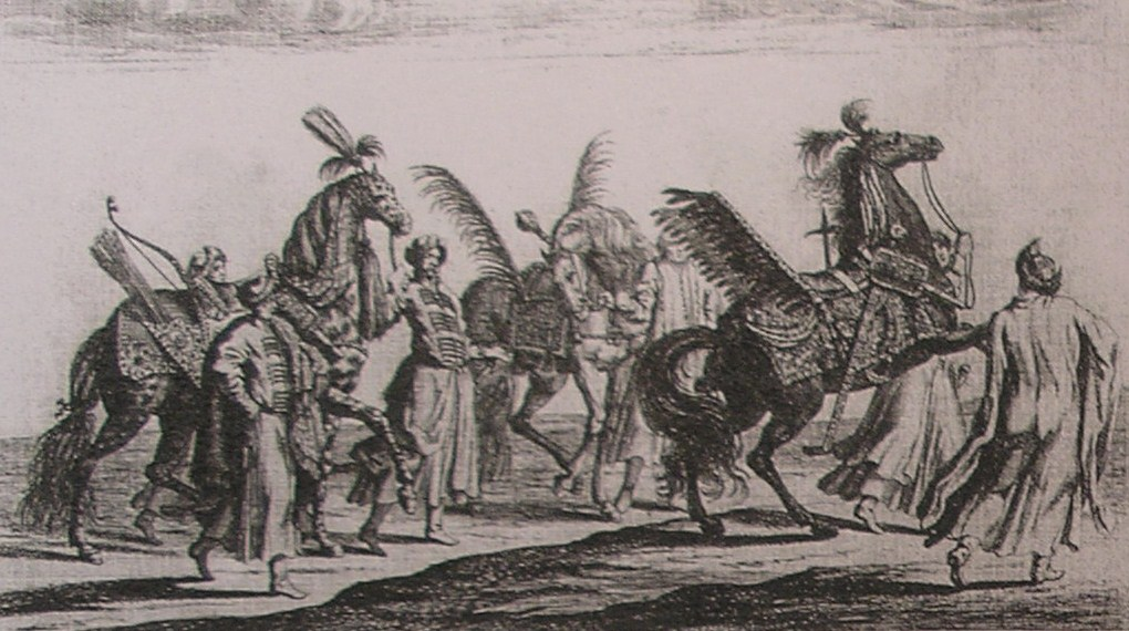 Certamen equestre cæteraque solemnia Holmiæ Suecorum Ao: MDCLXXII .M. Decbr: celebrata cum Carolus XI. omnium cum applausu aviti regni regimen capesseret.